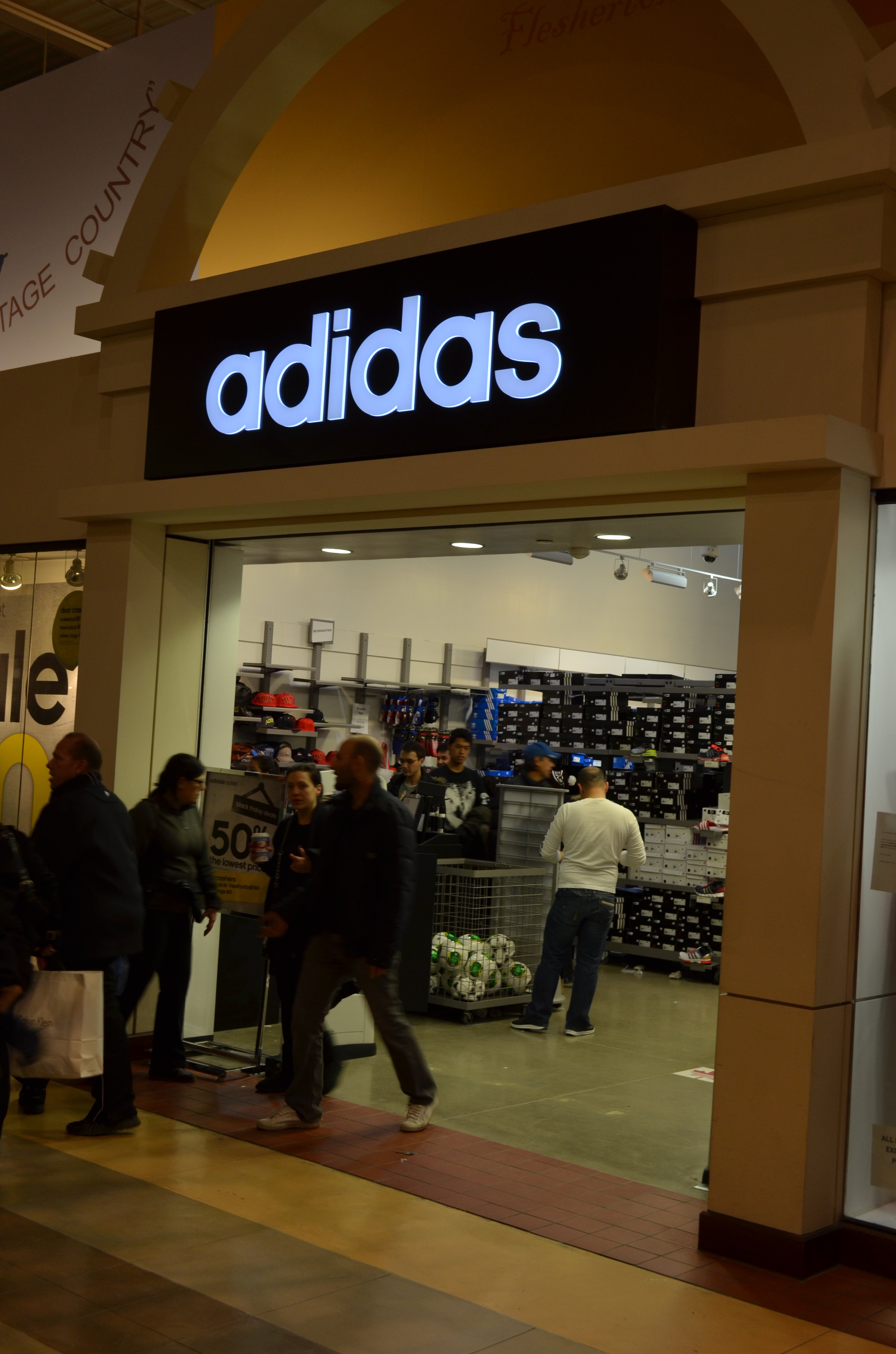 adidas store at Vaughan Mills